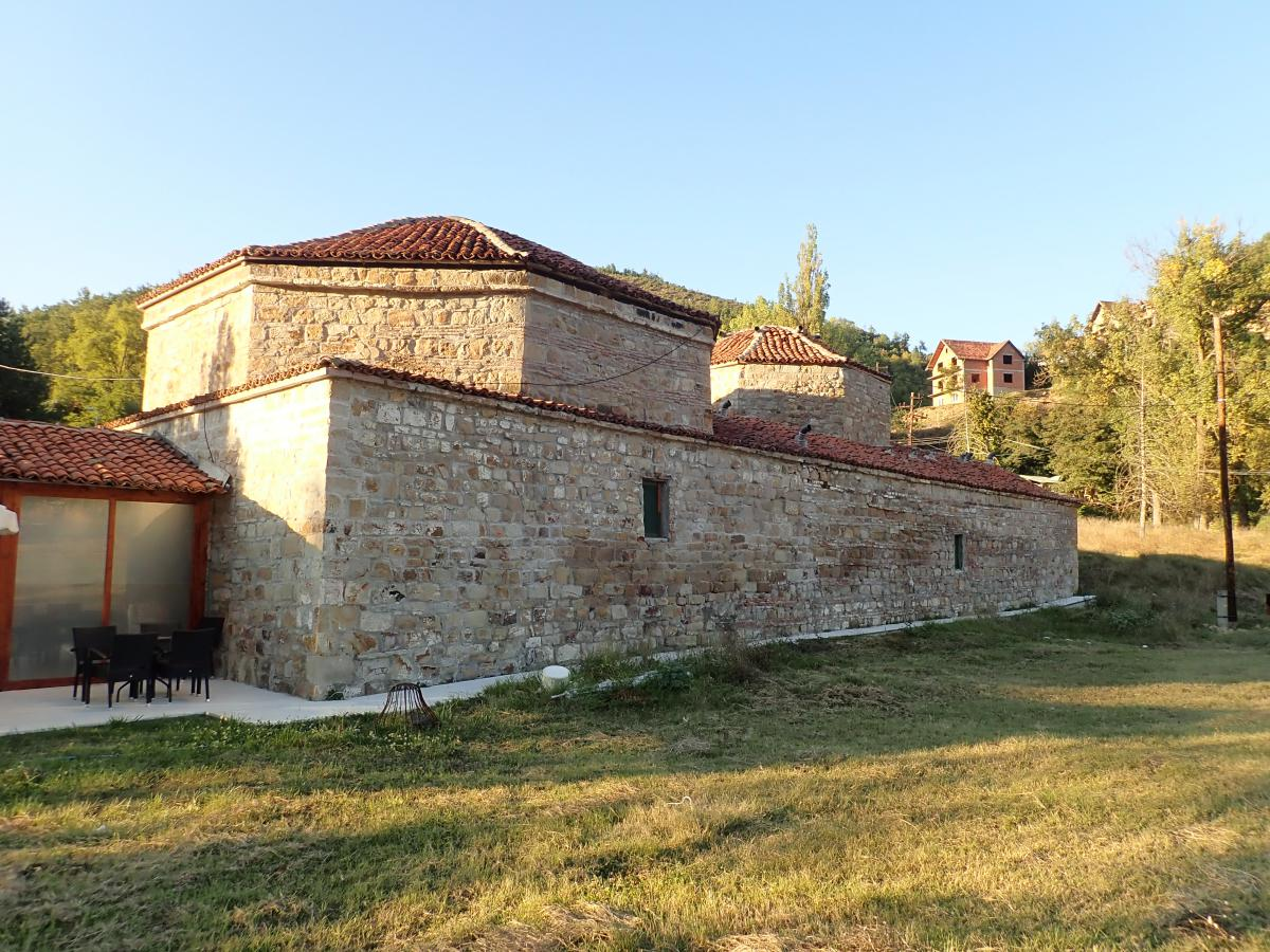 Staro kupatilo Novopazarska Banja